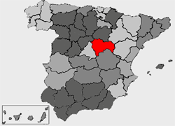 Province locator map of Guadalajara (created by Montrealais)